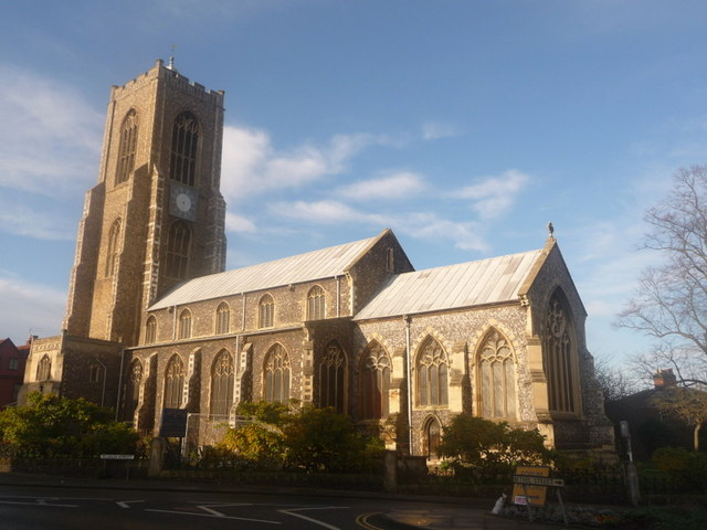 Norwich: church of St. Giles Though mentioned in the Domesday Book, the building we see now dates from around 1400, with the south porch added in the 16th century.